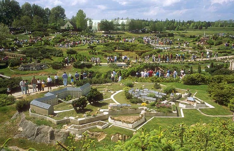 Photo of France Miniature attraction park in Elancourt, France